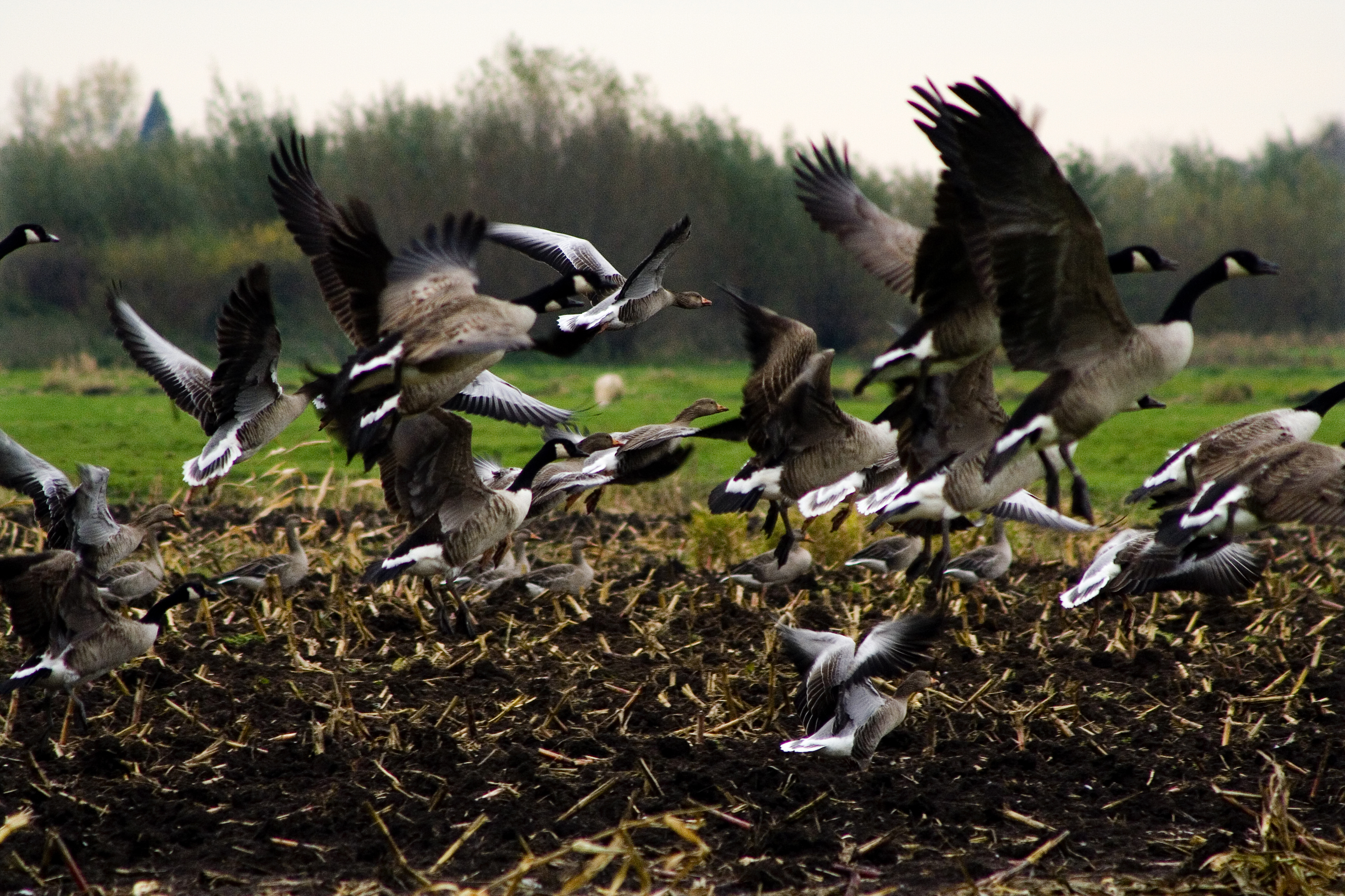 WInter palace for Greylag Geese and Canada Geese, Netherlands.